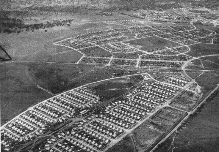 Early aerial photo of Narrabundah